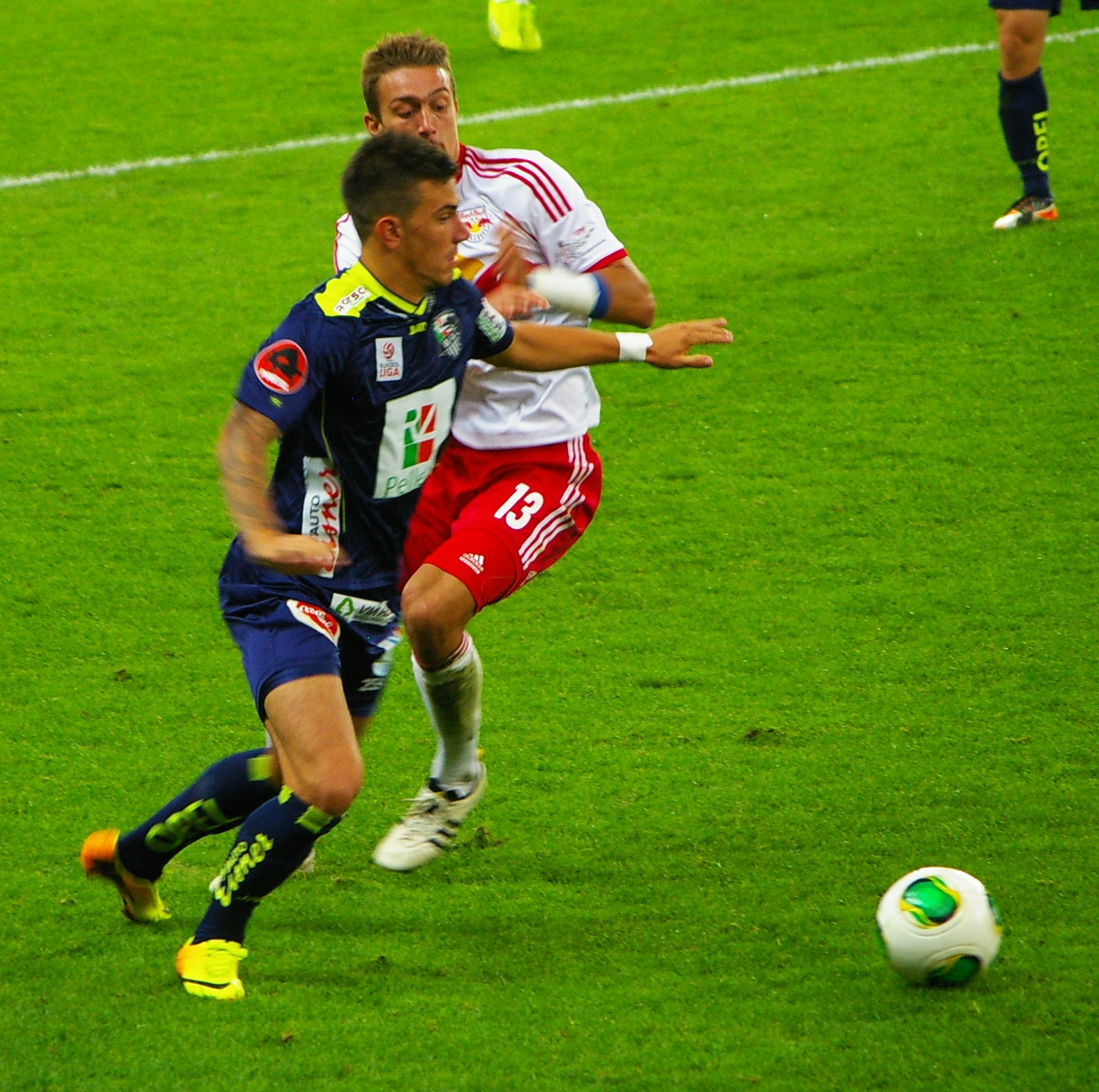 league match Austrian Bundesliga